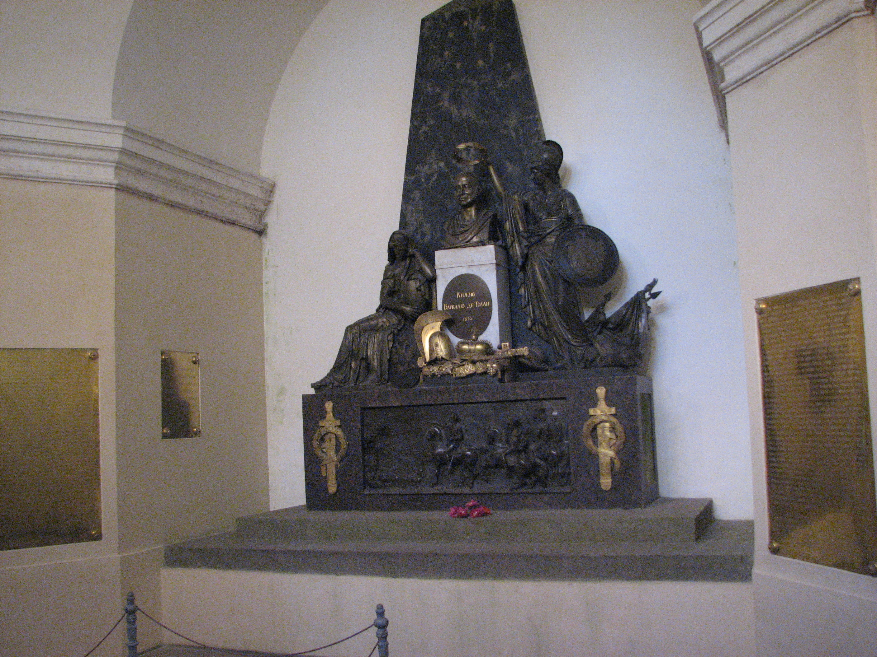 Mausoleum of Barclay de Tolly in Jõgeveste, Estonia